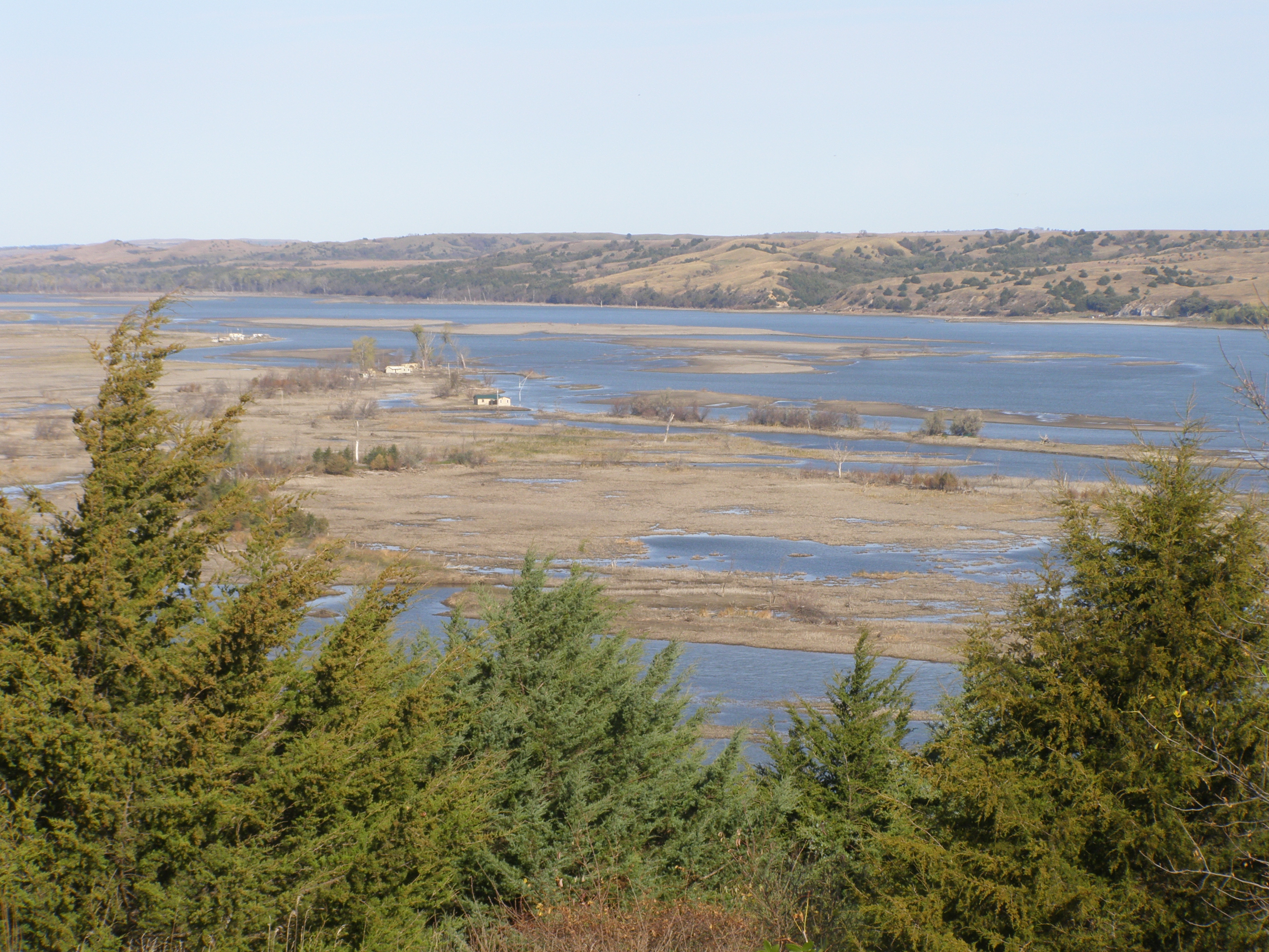 Missouri River lowlands, above or west, of its confluence with the Niobara River. Near Yankton, S.D.